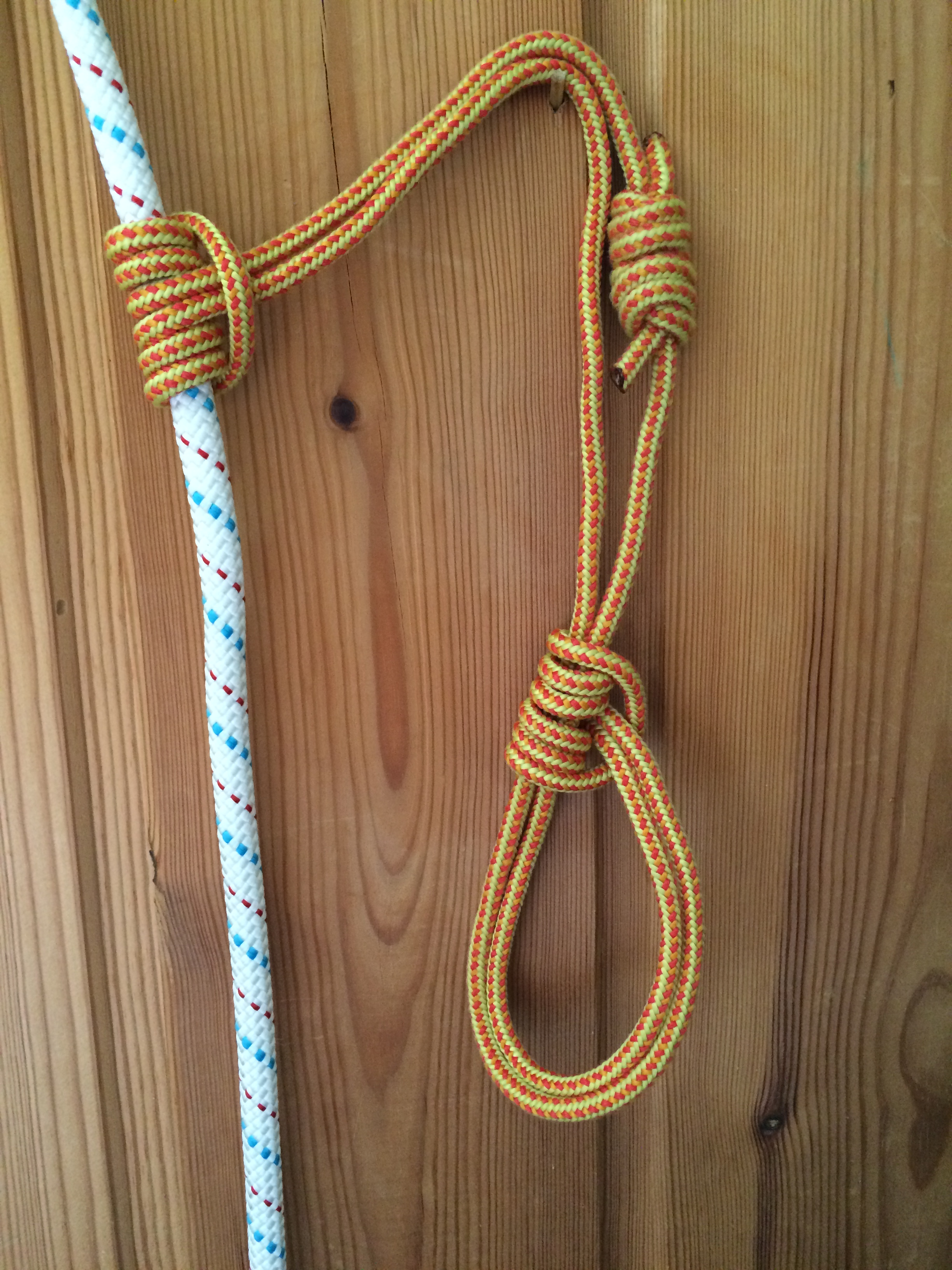 Prusik hitch